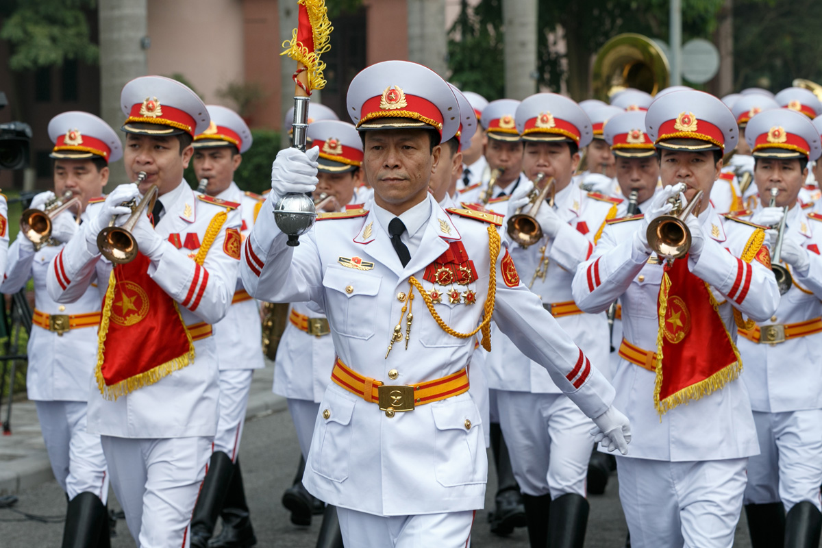 Working visit of Russian Defense Minister Sergei Shoigu to Vietnam.